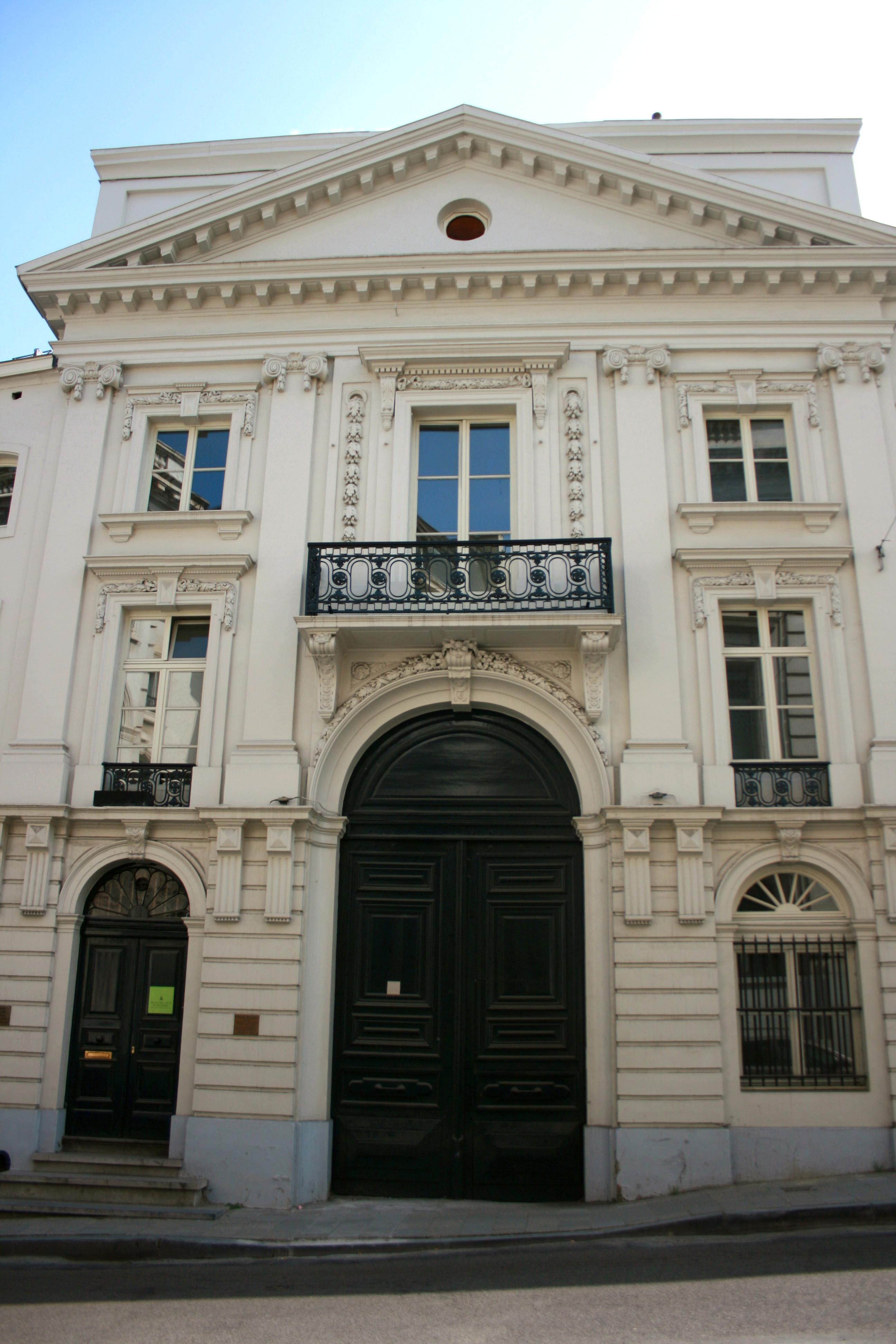 Rue de Namur 4-12 (French) / Naamsestraat 4-12 (Flemish), City of Brussels (Belgium). Former 'Abbey of Coudenberg'. 1776-1778. Neoclassical architecture. Two commemorative plaques are mounted to the walls next to the main entrance (at No. 10). The one at the left wall is in French language and reads (translated): 'The Belgian Military School founded in 1934 was housed in this building until 1874.'